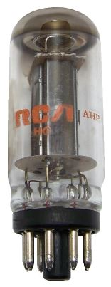 6V6 Vacuum tube RCA 1970's Coin Base.